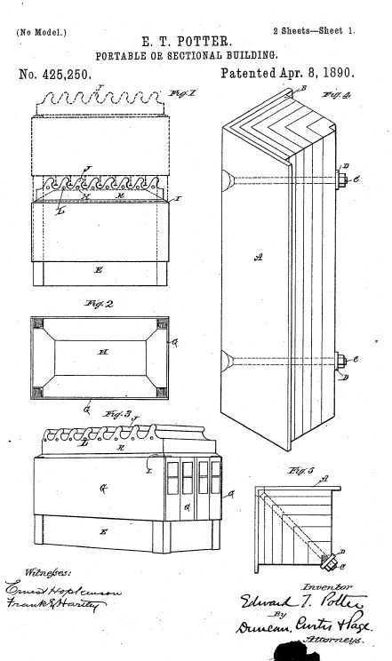 Patent: Portable or Sectional Building